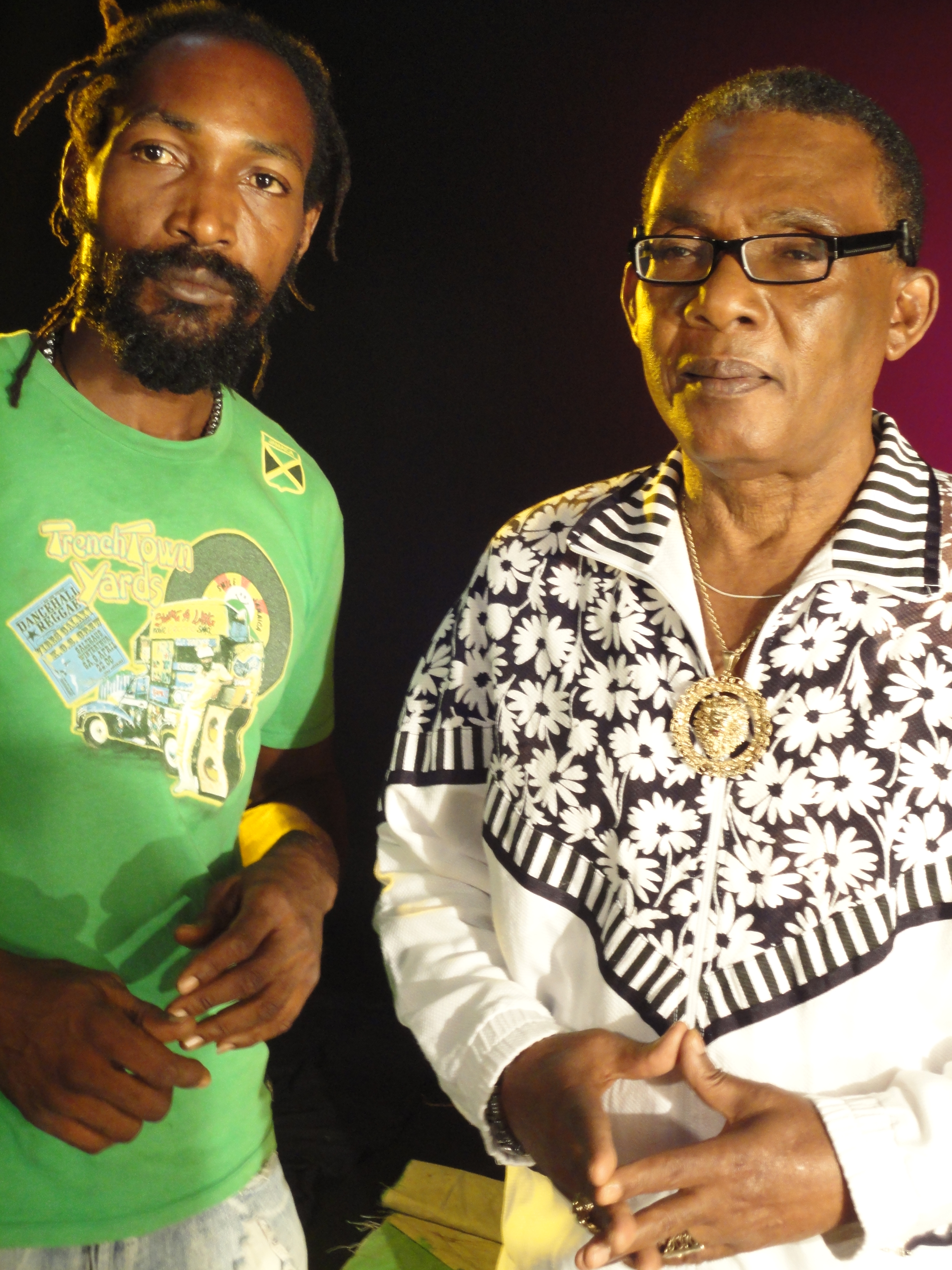 Music video in Jamaica